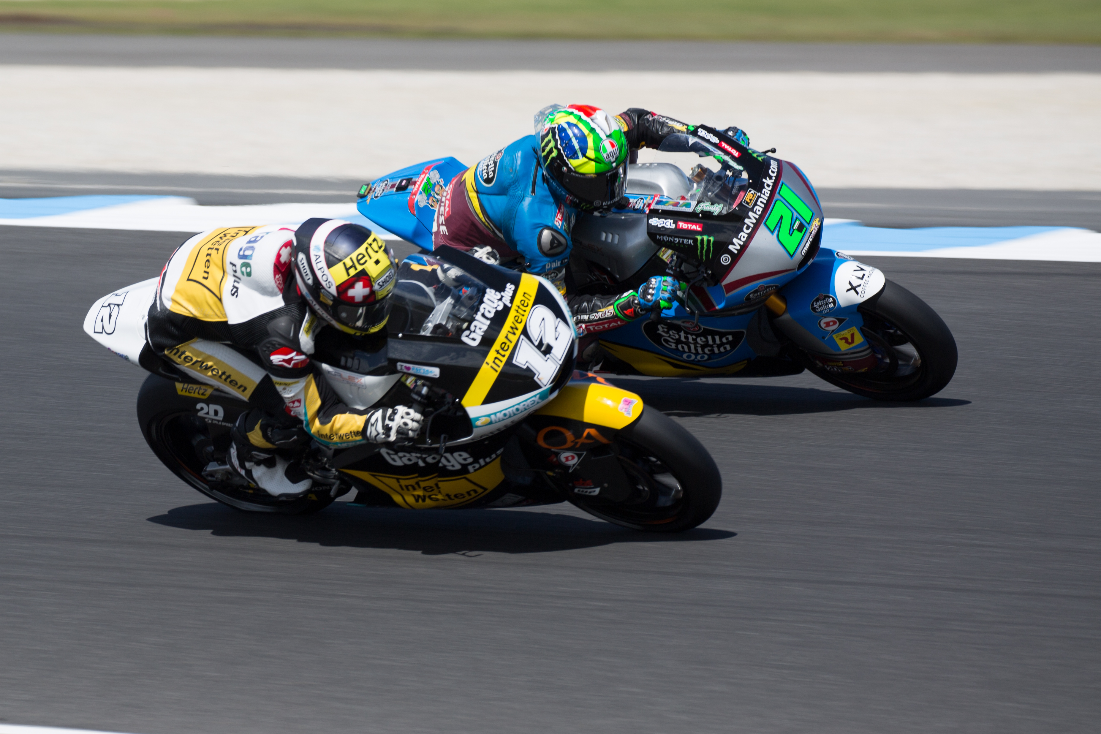 Franco Morbidelli and Thomas Luthi at 2016 Australian Grand Prix